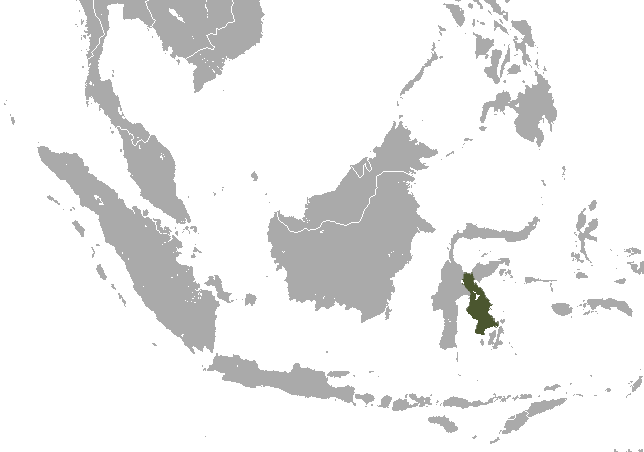 Sulawesi Tiny Shrew (Crocidura levicula) range